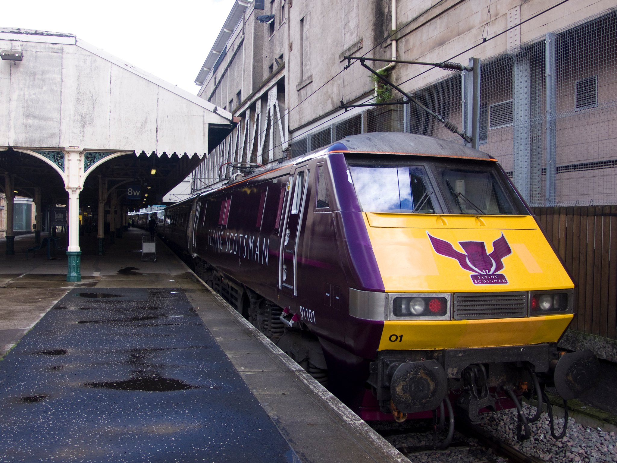 A British Rail Class 91, no. 91101, in East Coast's promotional Flying Scotsman livery at Edinburgh Waverley railway station.